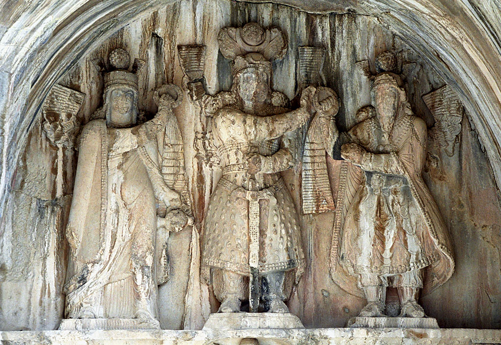 Taq-e Bostan - High relief: investiture scene; from left to right: Anahita, Khosrow II, Ahura Mazda